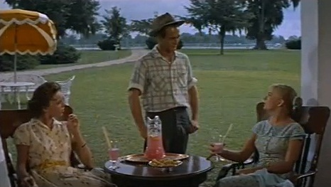 Still from he trailer of The Long, Hot Summer. (L-R) Angela Lansbury, Paul Newman and Joanne Woodward